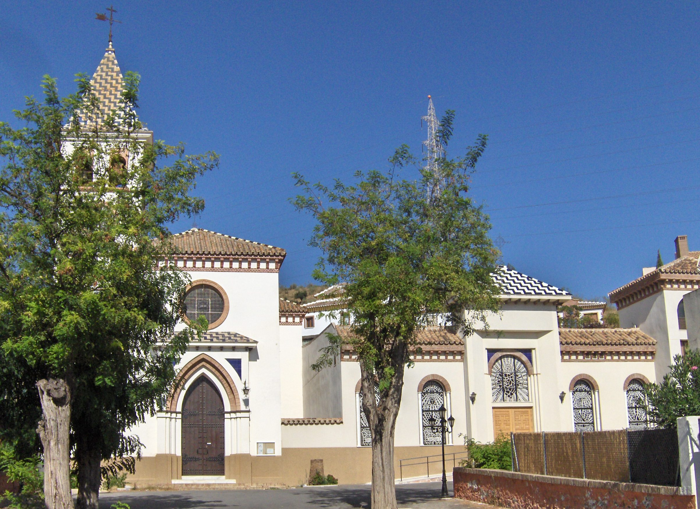 Church of los Dolores, Puerto de la Torre.